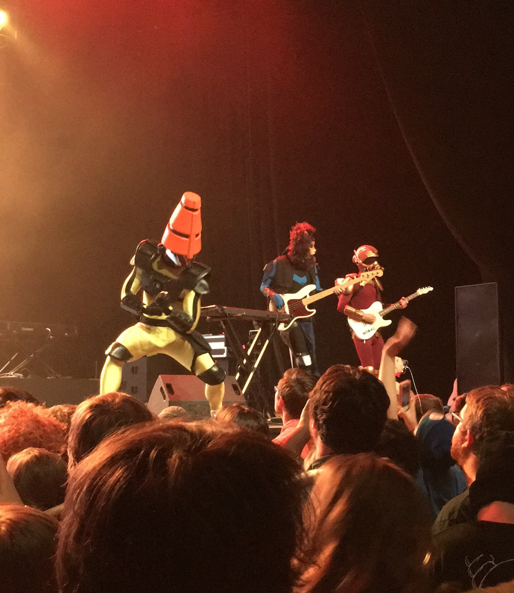 TWRP on stage at the August 12th "Tour de Force 2018" show, at The Dallas Bomb Factory Doctor Sung (left), Commander Meouch (middle), Lord Phobos (right)